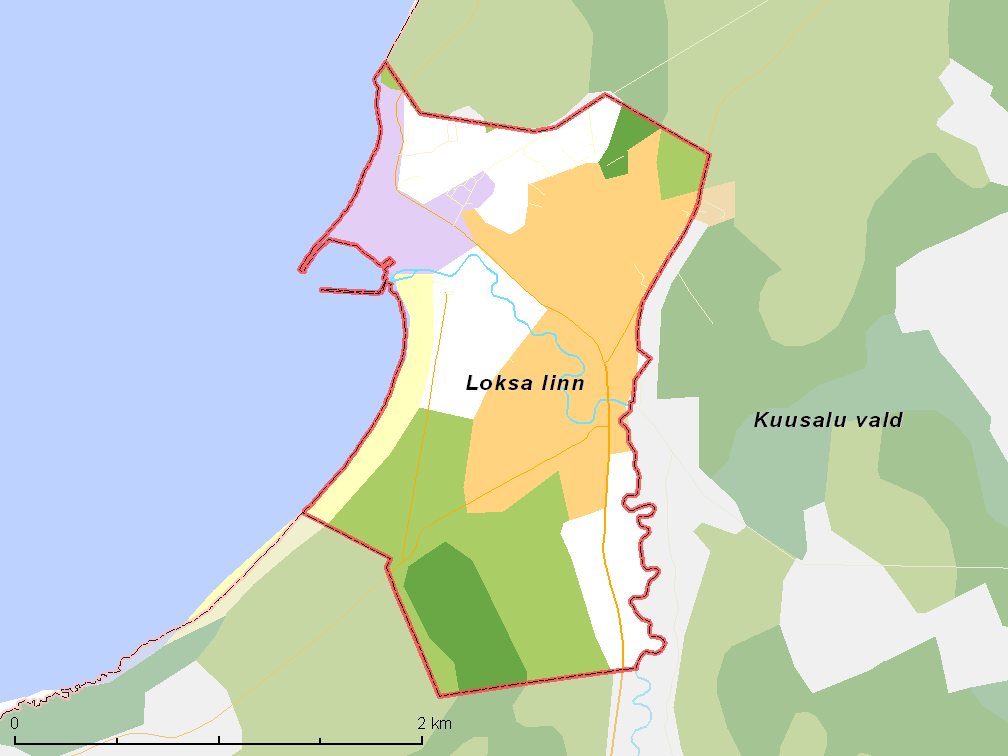 Map of municipality in Estonia